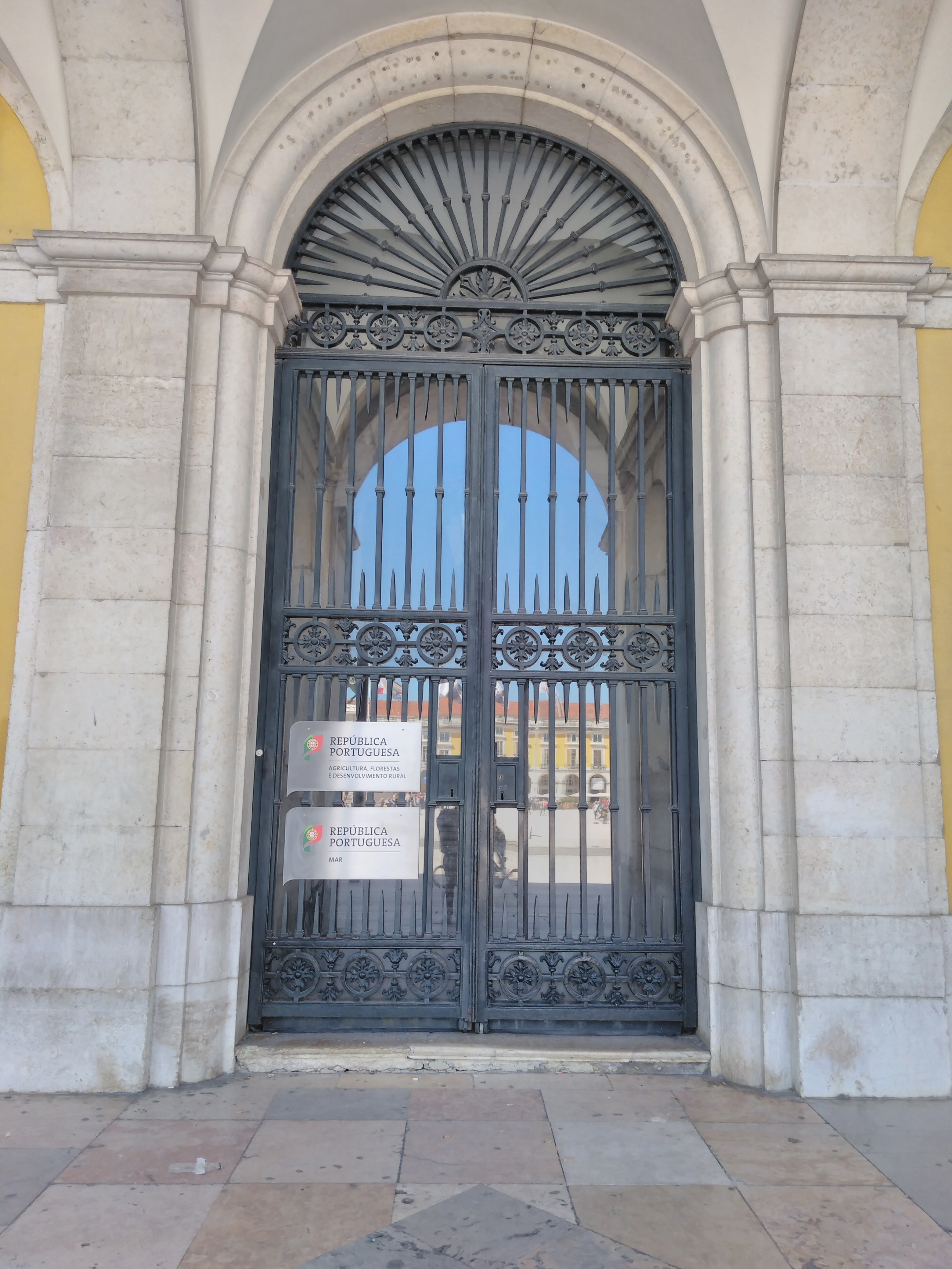 Sea and Agriculture, Forests and Rural Development Ministries in the west wing of Praça do Comércio